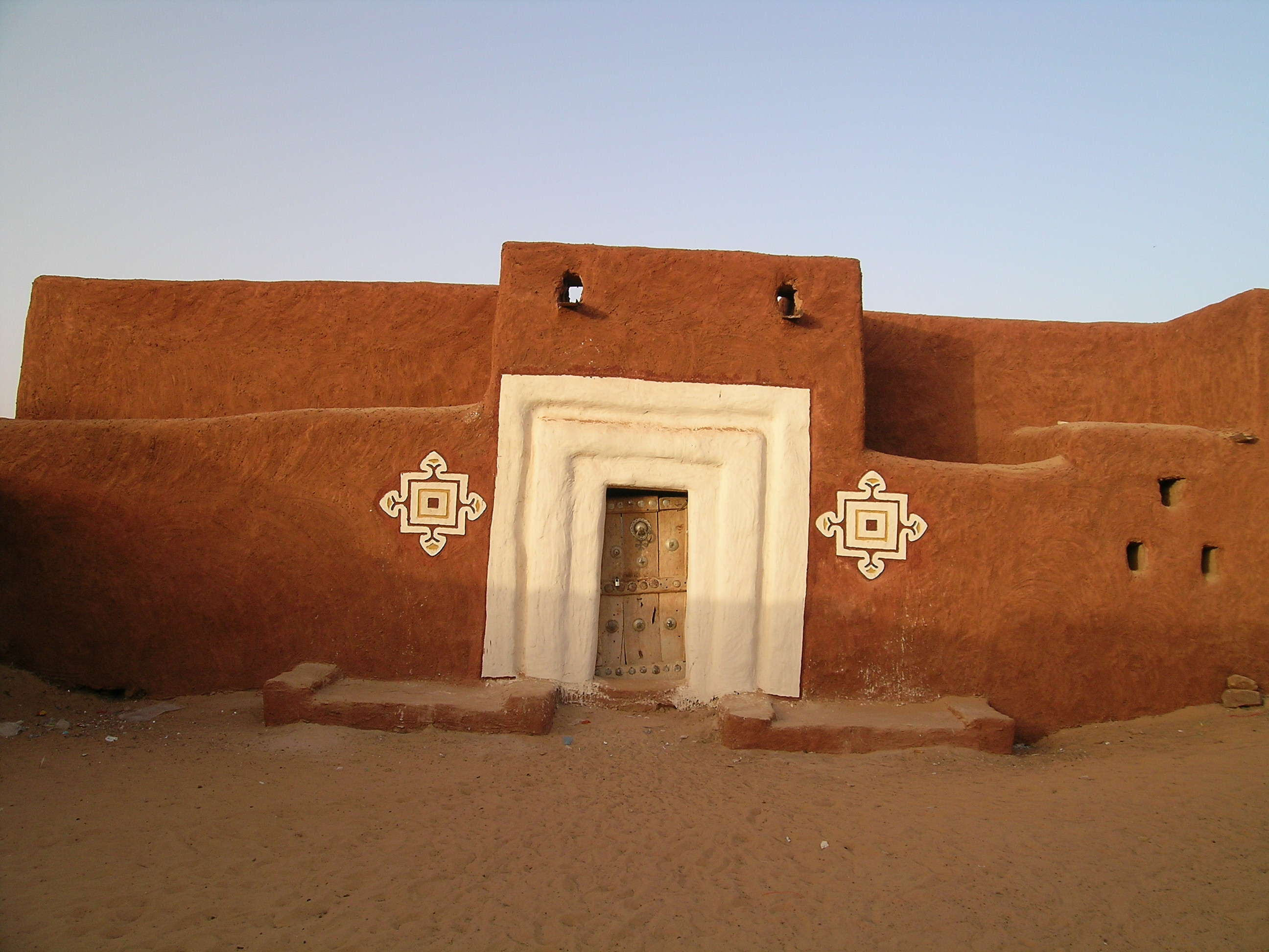 Typical architecture of Oualata, Mauritania